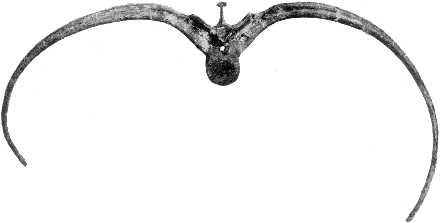 Ribs and vertebra of Ankylosaurus (specimen AMNH 5895).